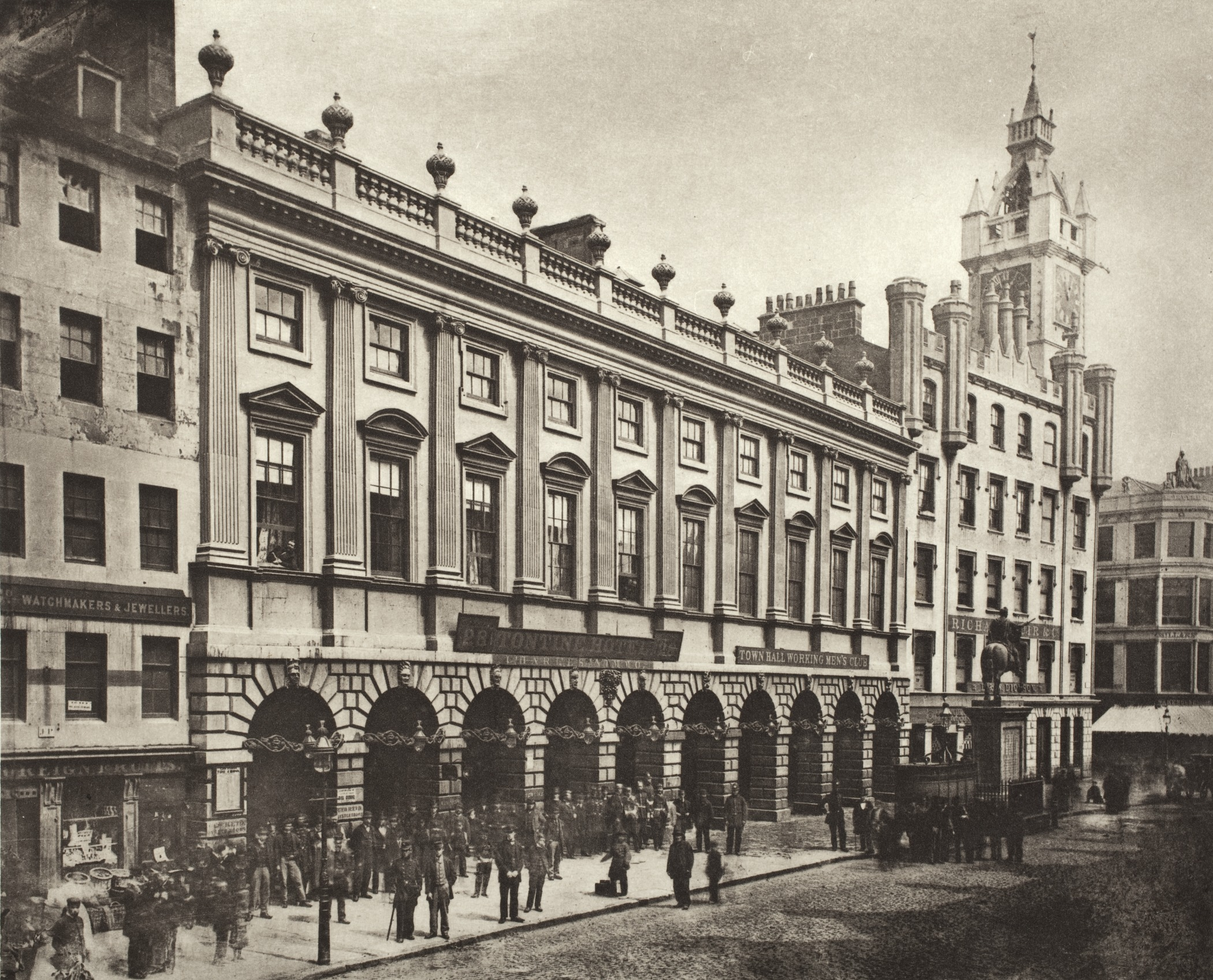 Scotland, 1868, printed 1900 Photographs Photogravure The Marjorie and Leonard Vernon Collection, gift of The Annenberg Foundation, acquired from Carol Vernon and Robert Turbin (M.2008.40.98.19) Photography